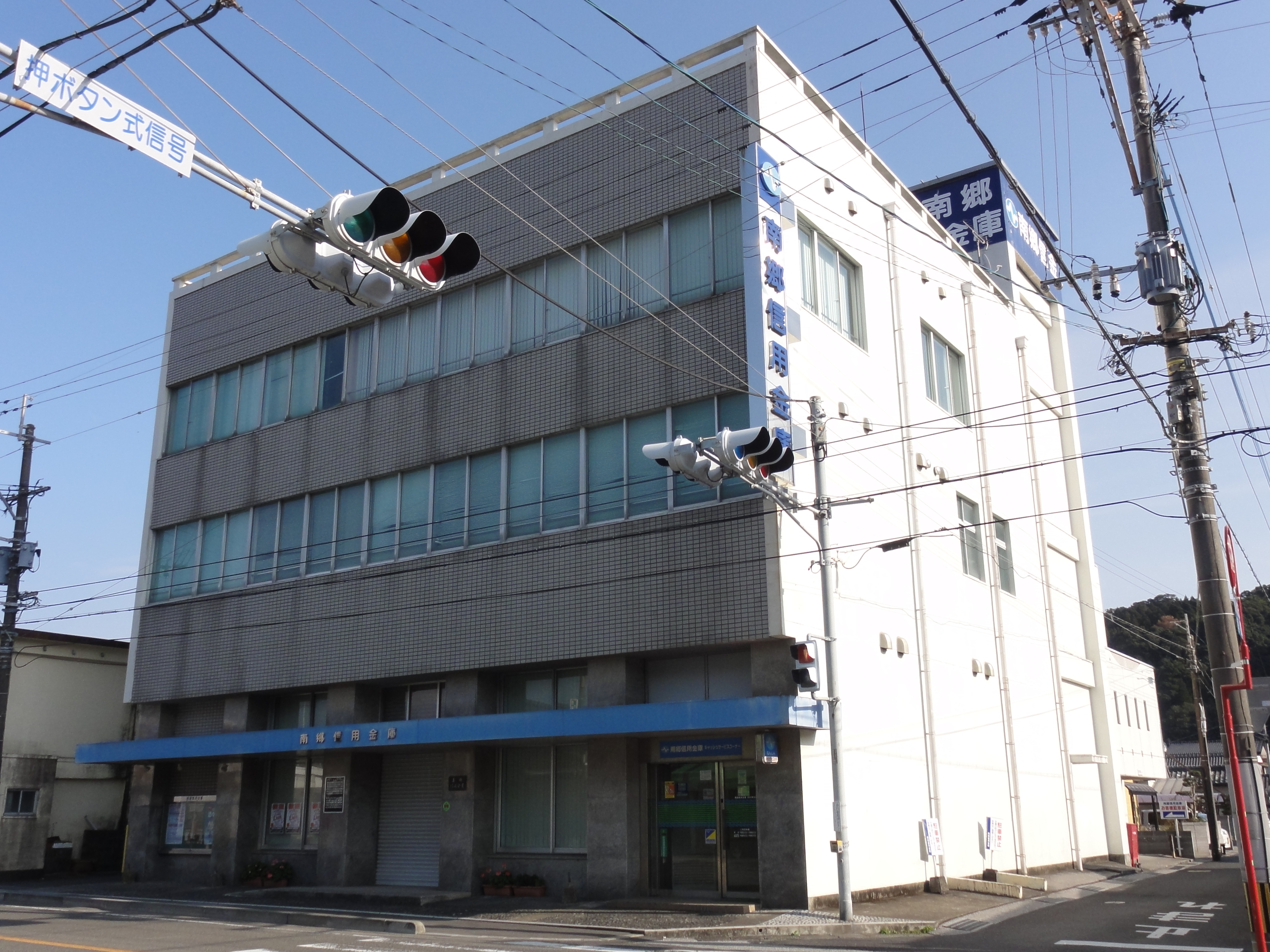 Nangō shinkin bank(Meitsu branch),Miyazaki prefecture, Japan